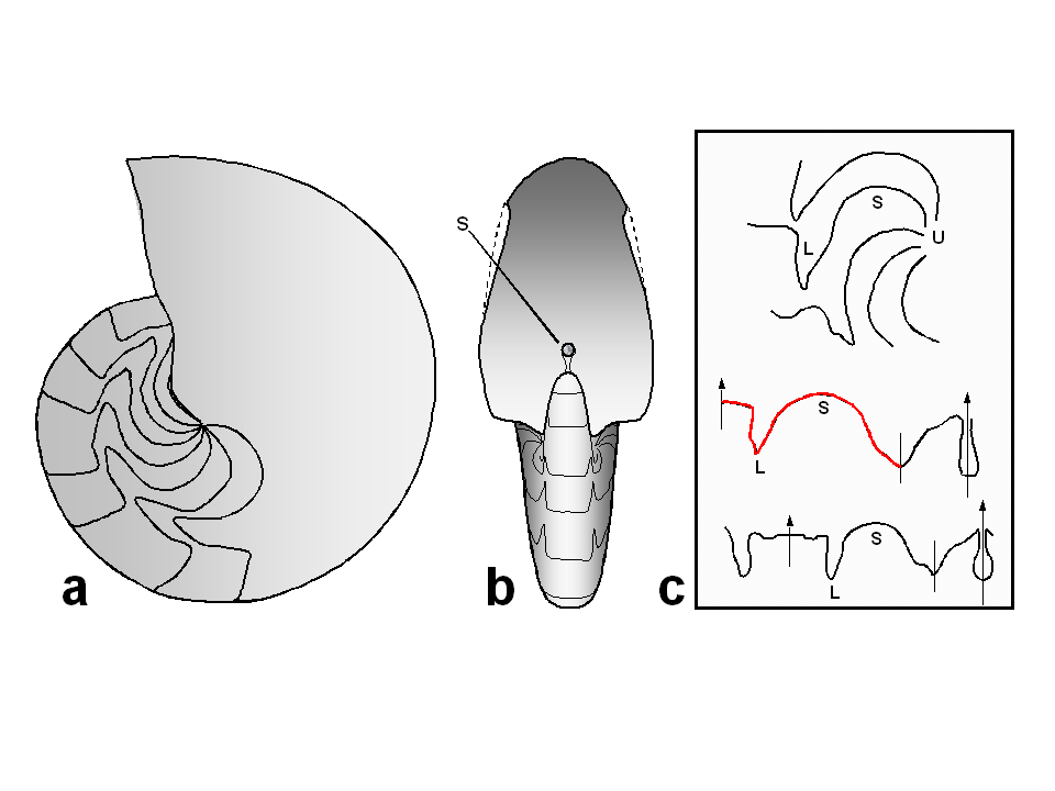 Characters of genus Aturia (Cephalopoda, Nautiloidea, Nautilida). a) lateral view of a specimen with phragmocone and body chamber; b) ventral view of a phragmocone with the sub-dorsal siphuncule visible on the last septum; c) sutural line patterns: U-umbilicus S-lateral saddle L-lateral lobe. Normally visible portion of the sutural line highlighted in red.